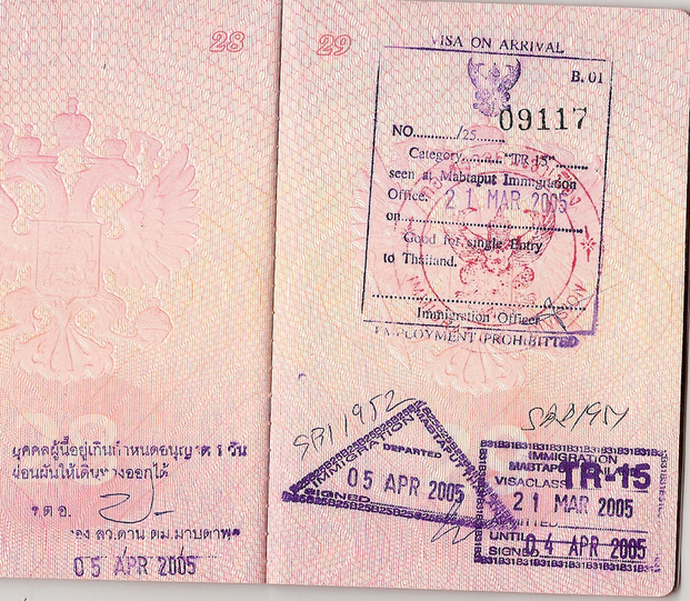 Thailand visa on arrival along with immigration stamps on a Russian passport